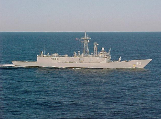 The U.S. Navy guided missile frigate USS Hawes (FFG-53) underway before removal of the Mk 13 missile launcher.